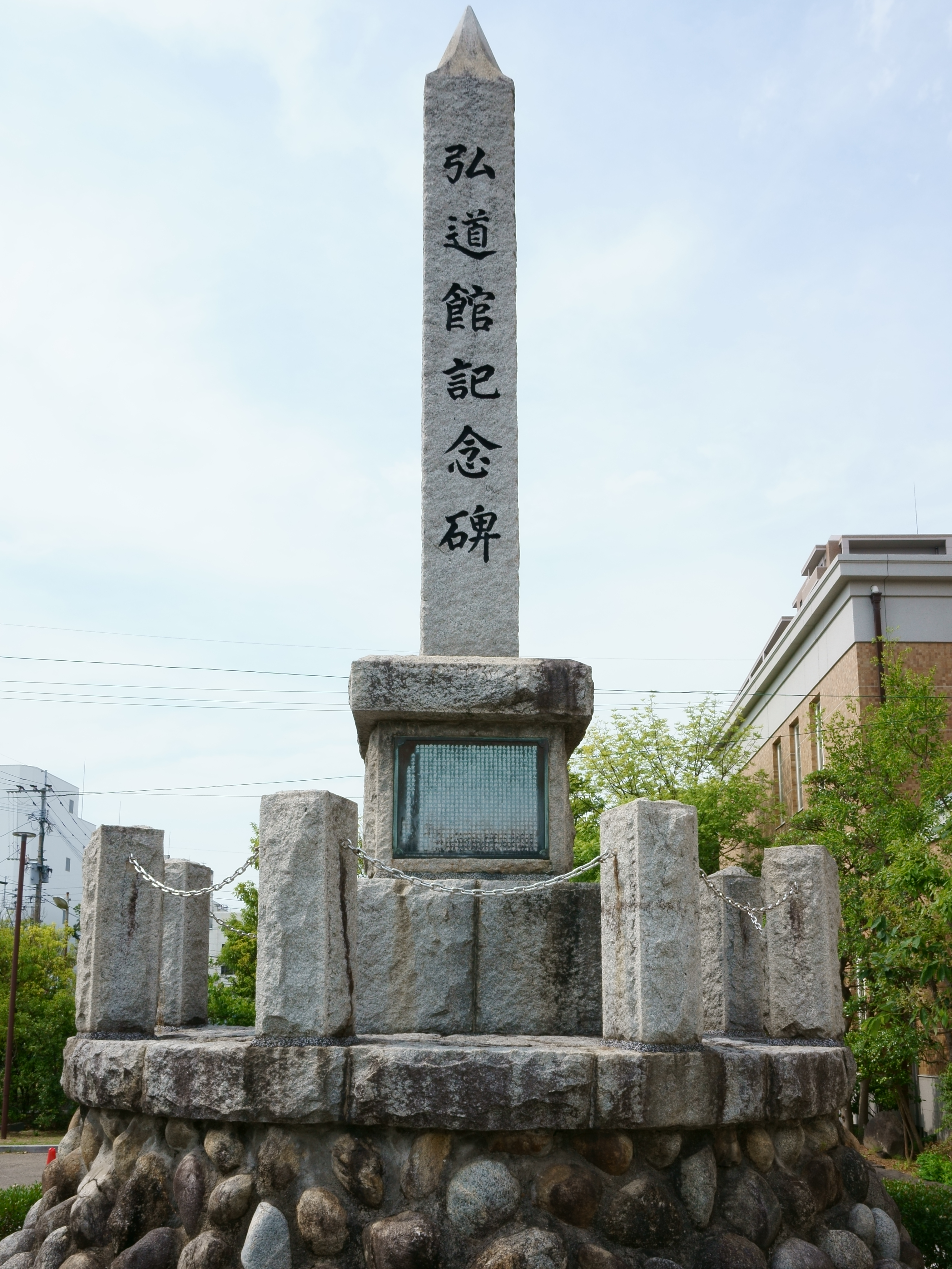 A monument of Kōdōkan, a Han school of Saga Domain(Saga Han) in Matsubara, Saga city, Saga prefecture.